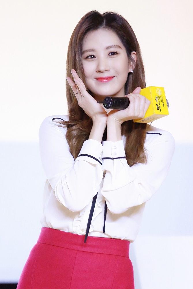 Seohyun at Kakao Talk The Game on January 19, 2016.